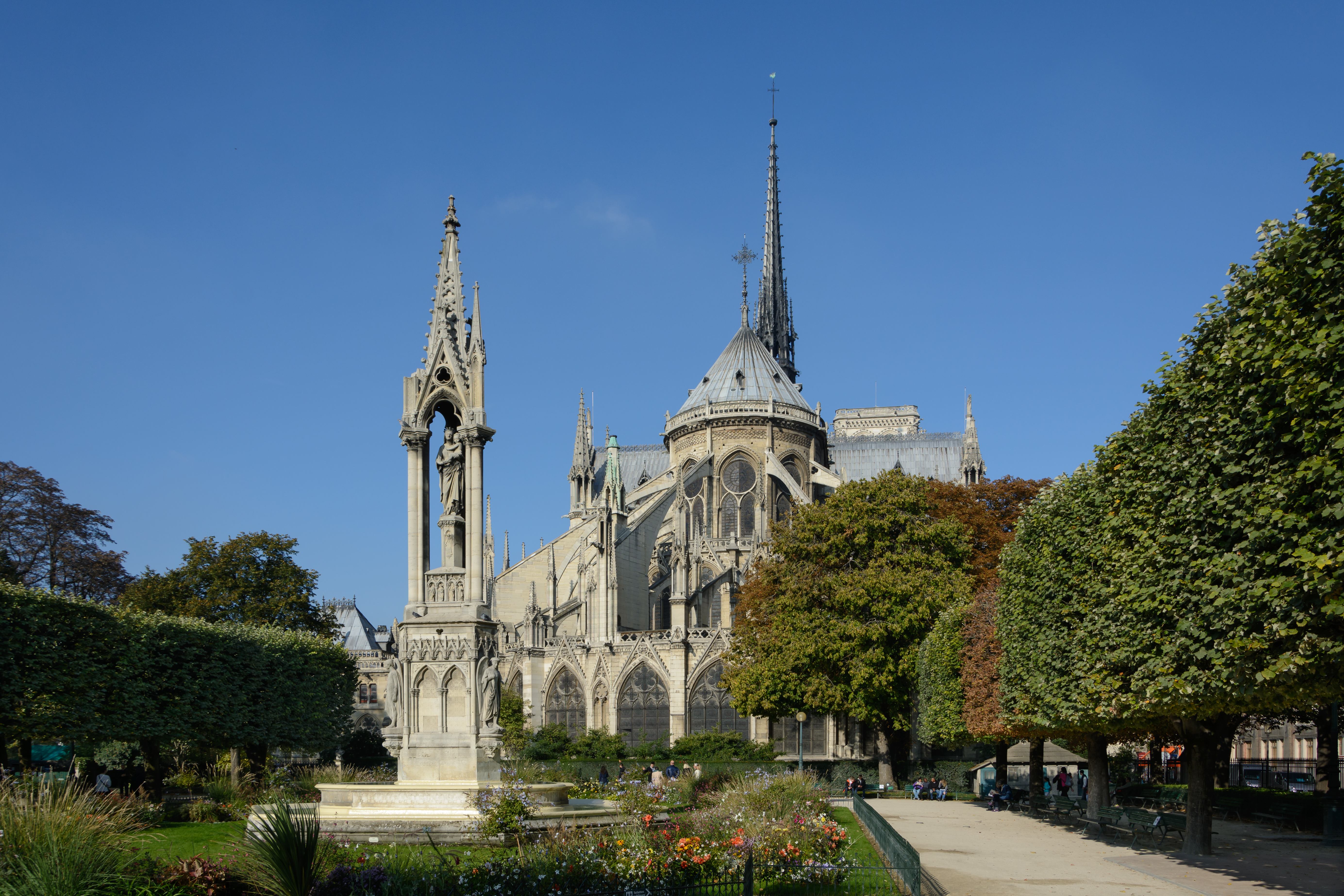 Fountain of the Virgin (Fontaine de la Vierge) at Square Jean XXIII and apse of the cathedral Notre-Dame de Paris, France